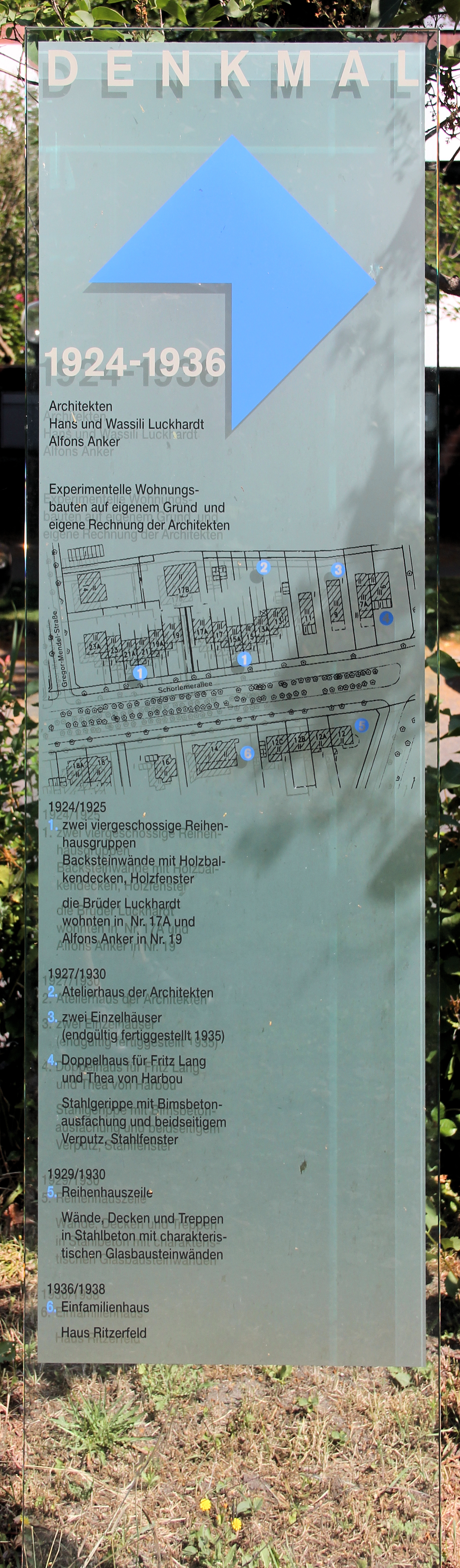 Memorial plaque, Hans Luckhardt, Wassili Luckhardt, Alfons Anker, Schorlemerallee 19, Berlin-Dahlem, Germany Koordinate:52°27′56″N 13°18′15″E / 52.46556°N 13.30417°E